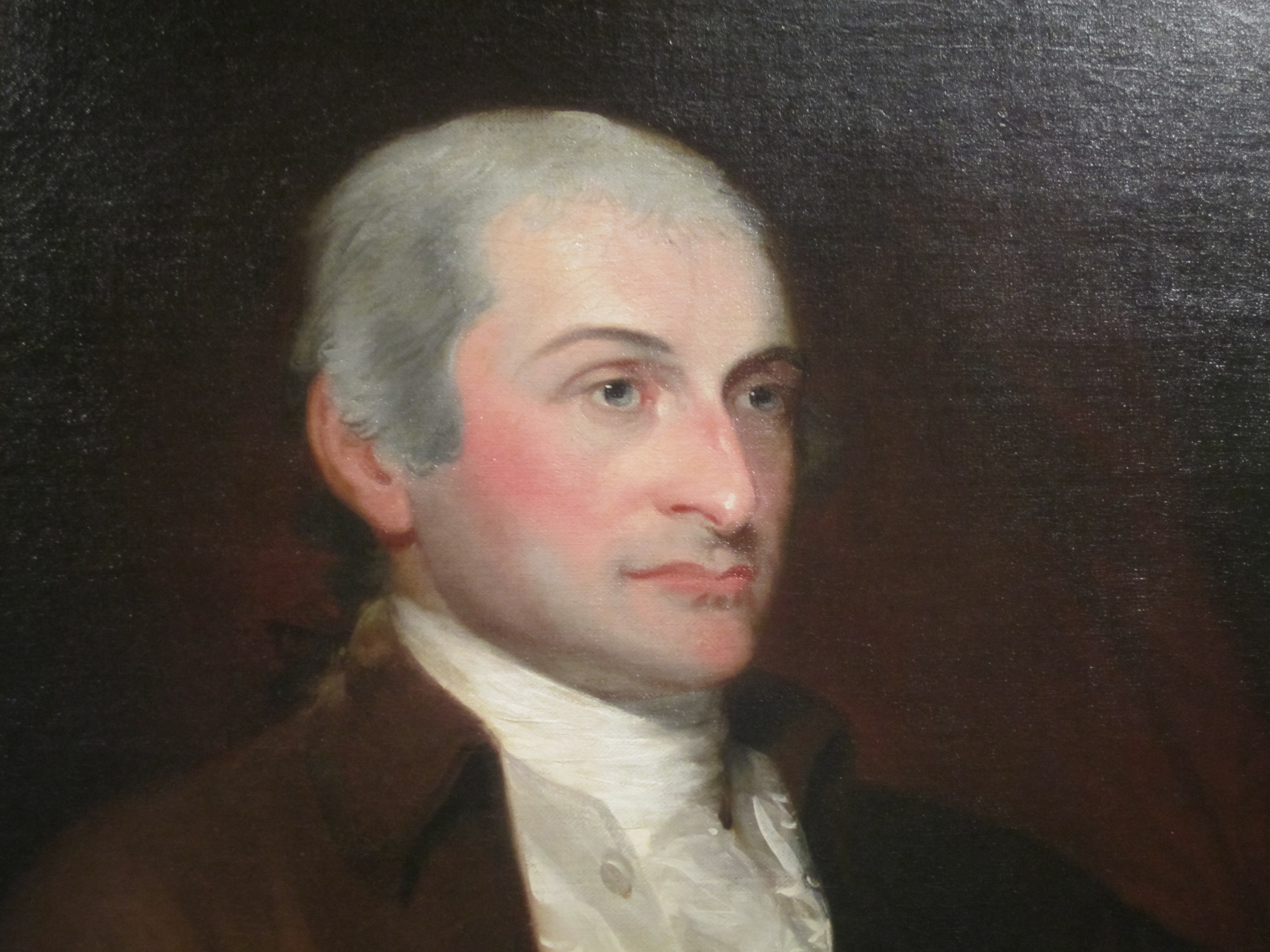 I took photo with Canon camera of John Jay photo at National Portrait Gallery. Public domain.